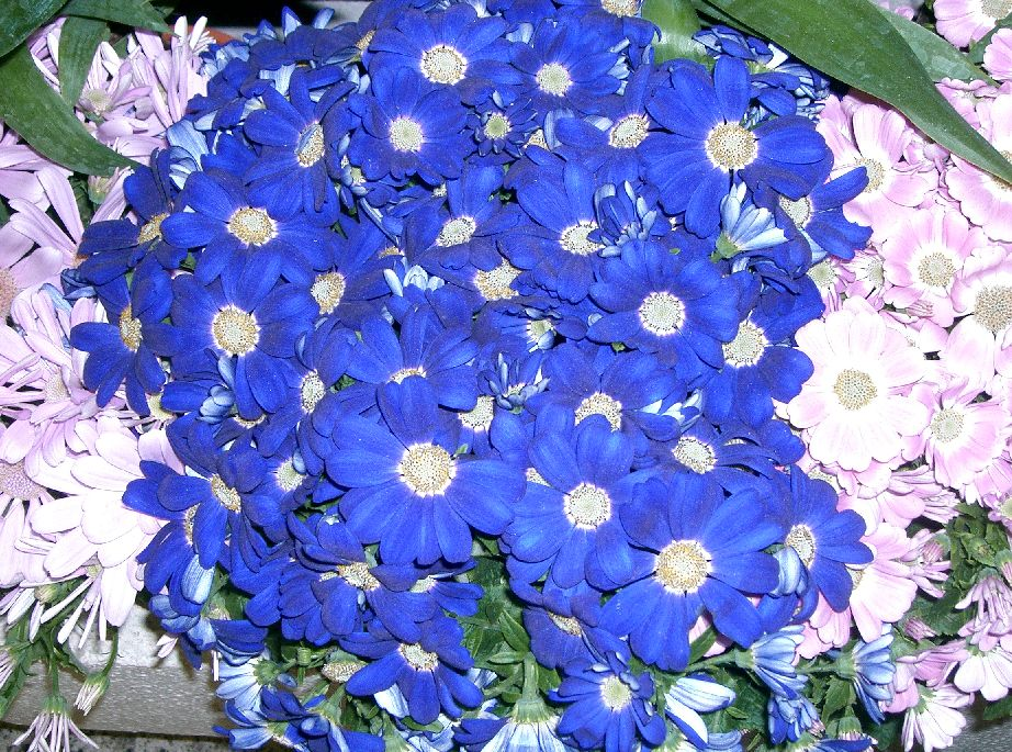 Pericallis x hybrida